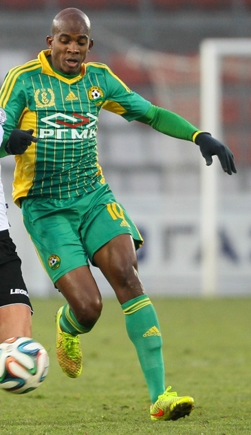 Charles Kaboré